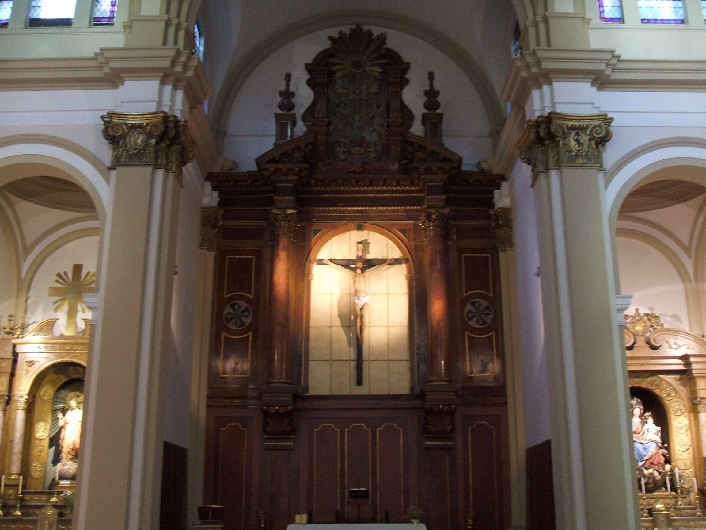 Iglesia del Santo Cristo del Olivar (PP Dominicos), en Madrid